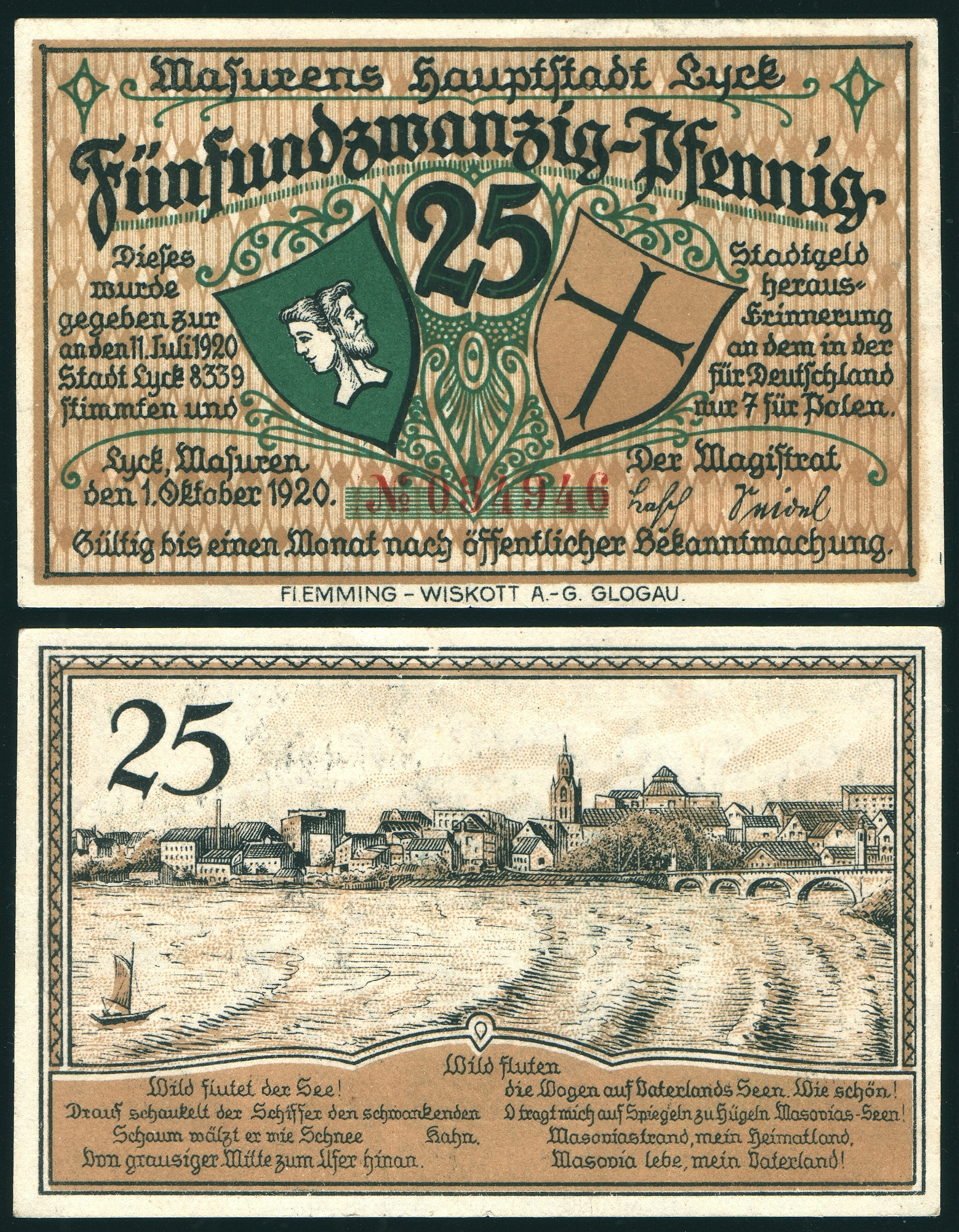 25 Pfennig Notgeld banknote of the town Lyck (Masuria), today Ełk (Poland), 1920, size: 85 mm x 54 mm.